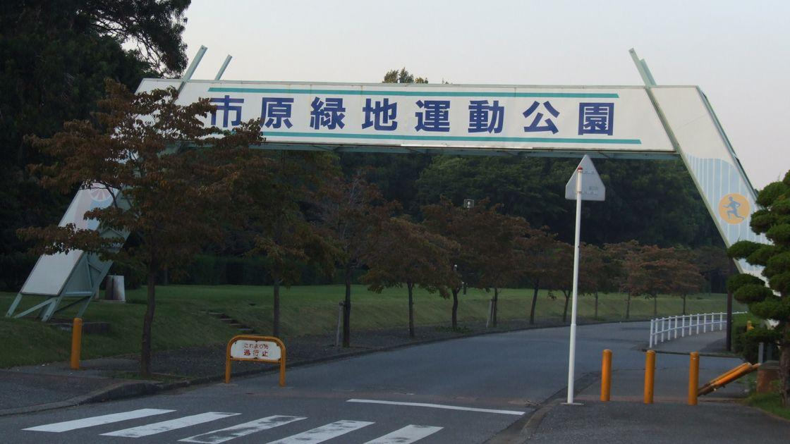 South Entrance of Ichihararyokuchi Sports Park